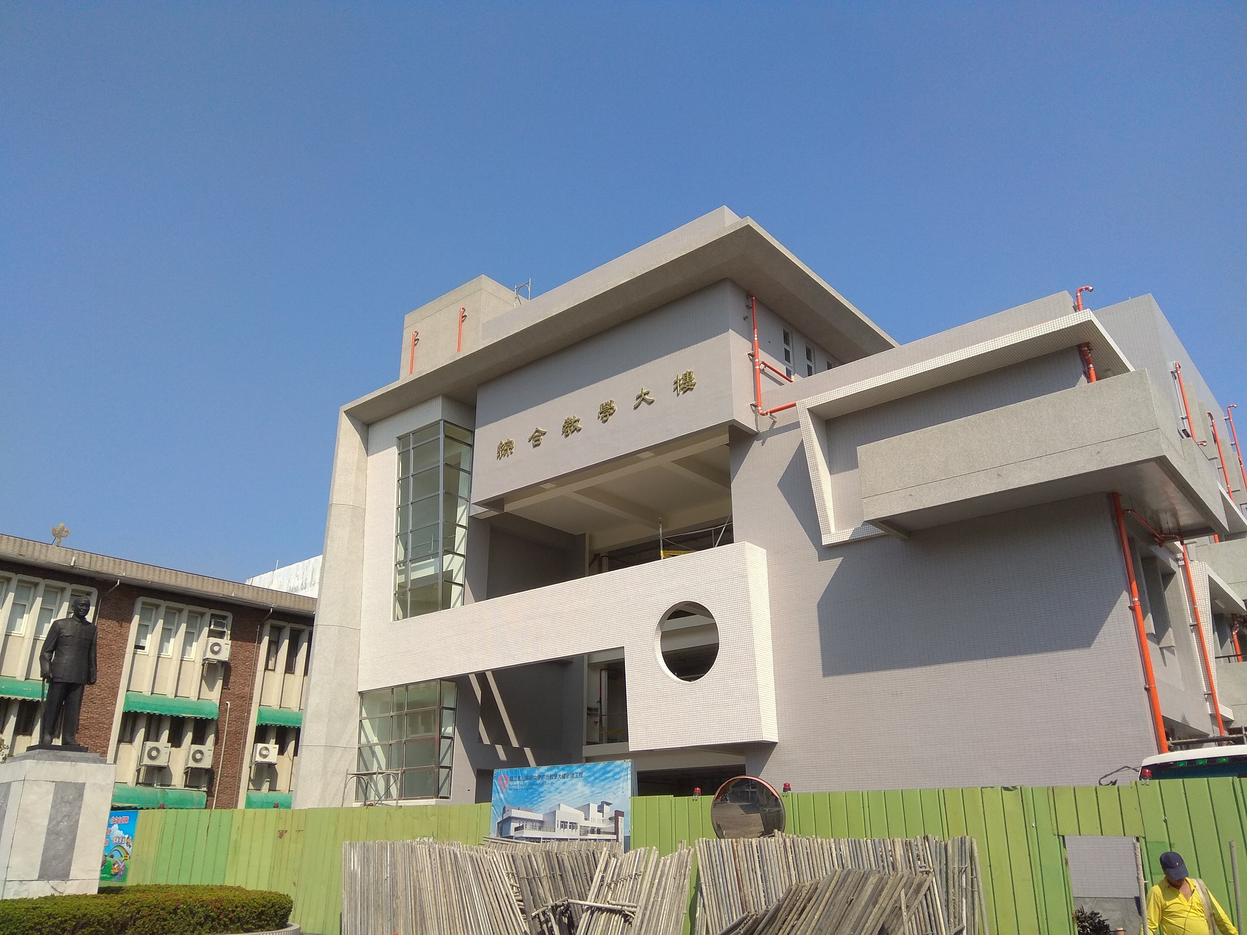 Complex Educational Building, National Feng-Shan Senior High School.